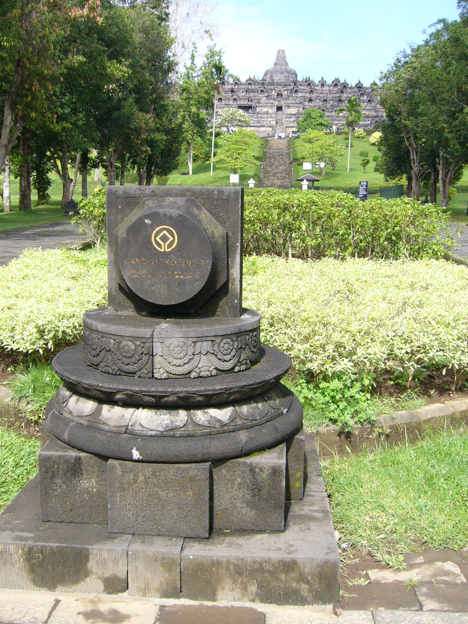 Borobudur Temple Compounds (Indonesia)